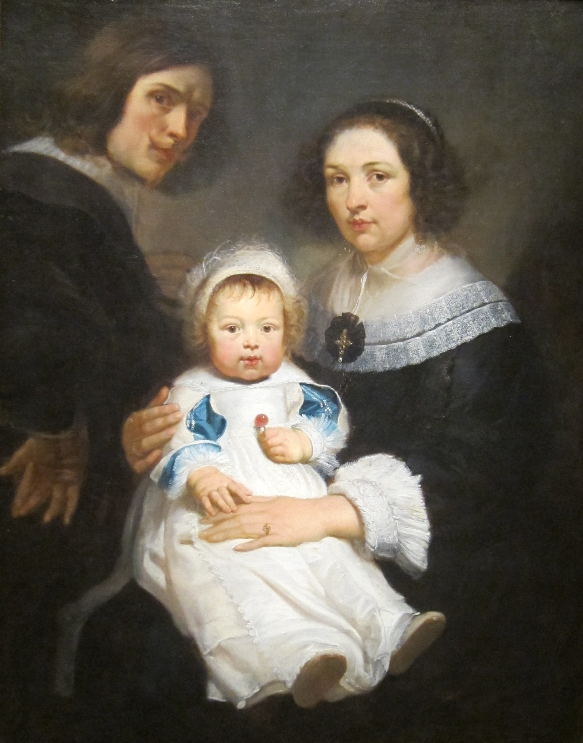 Self-portrait with his Wife Catherina de Hemelaer and Son Jan Erasmus Quellinus